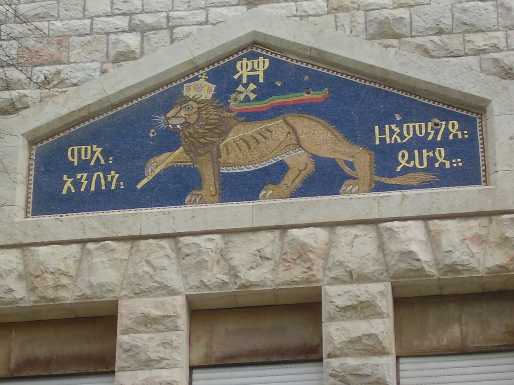 Ethiopian Consulate in Jerusalem